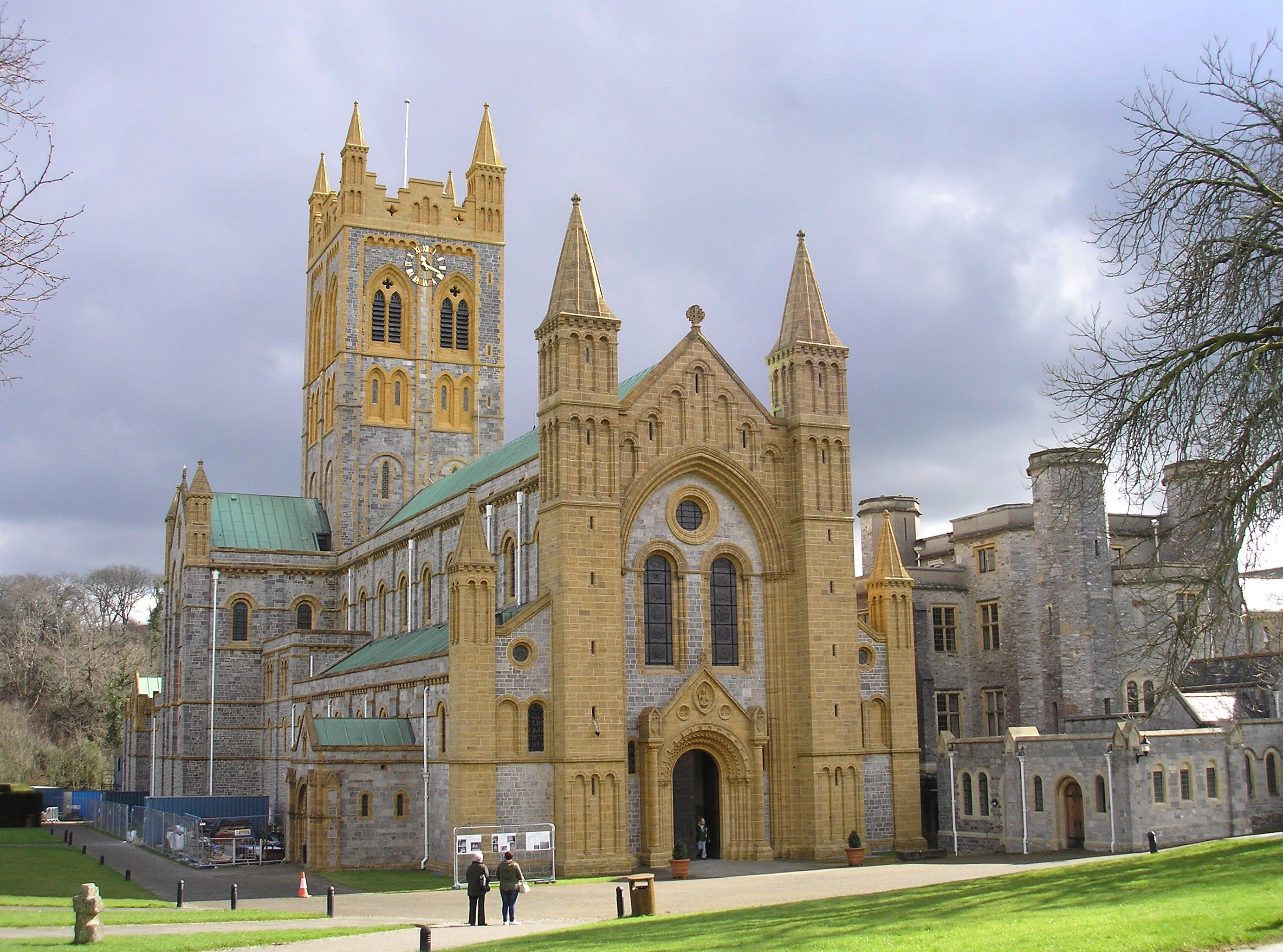 A cold, wintry February day with snow showers, but the sun shone on Buckfast Abbey! "Go figure it," as they say. Captured on March 19 2013. Camera: Olympus FE-120 6.0 Digital.